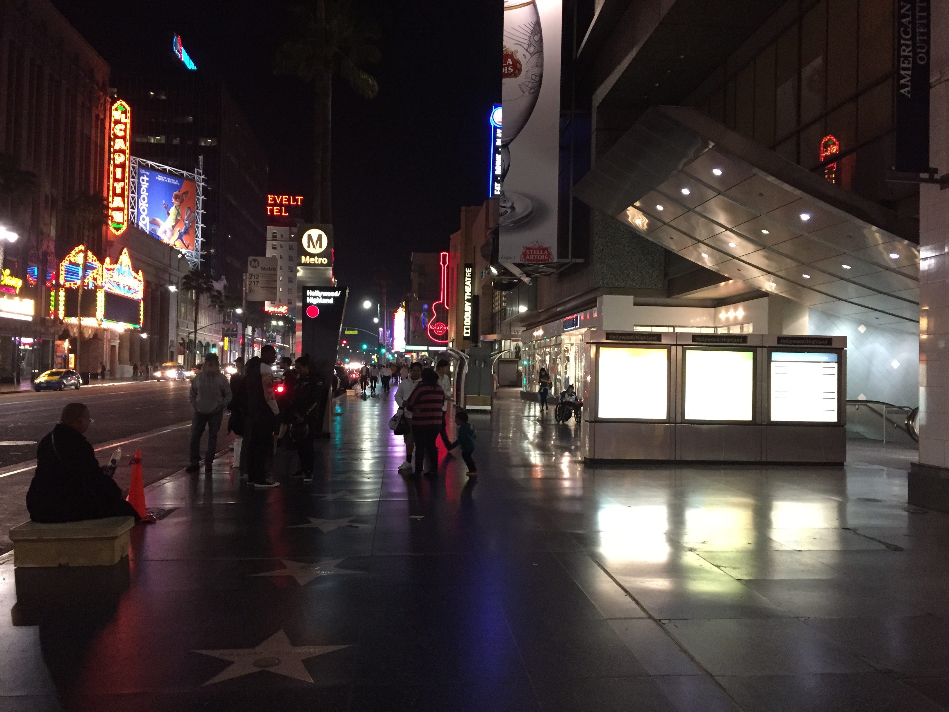 Headhouse of the Hollywood/Highland LACMTA station in Hollywood, Los Angeles, California at night in 2016.